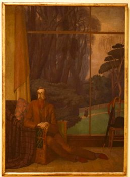 1914 self-portrait by Lytton Strachey